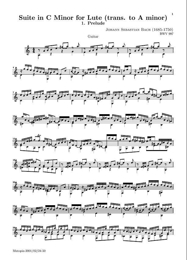 First page of prelude from Johann Sebastian Bach's lute suite C-Minor.